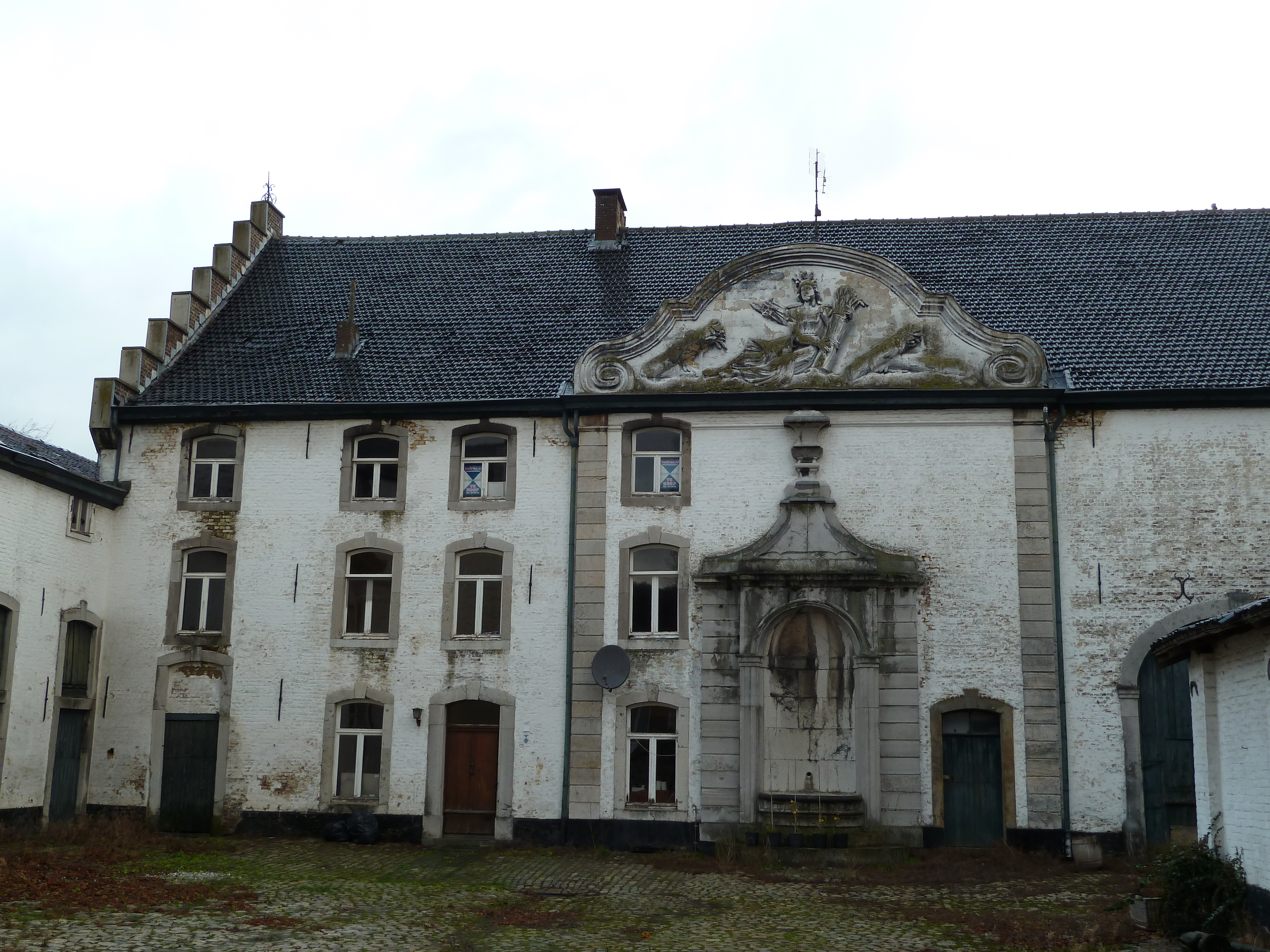 Tentstraat 67, Vaals, Limburg, the Netherlands